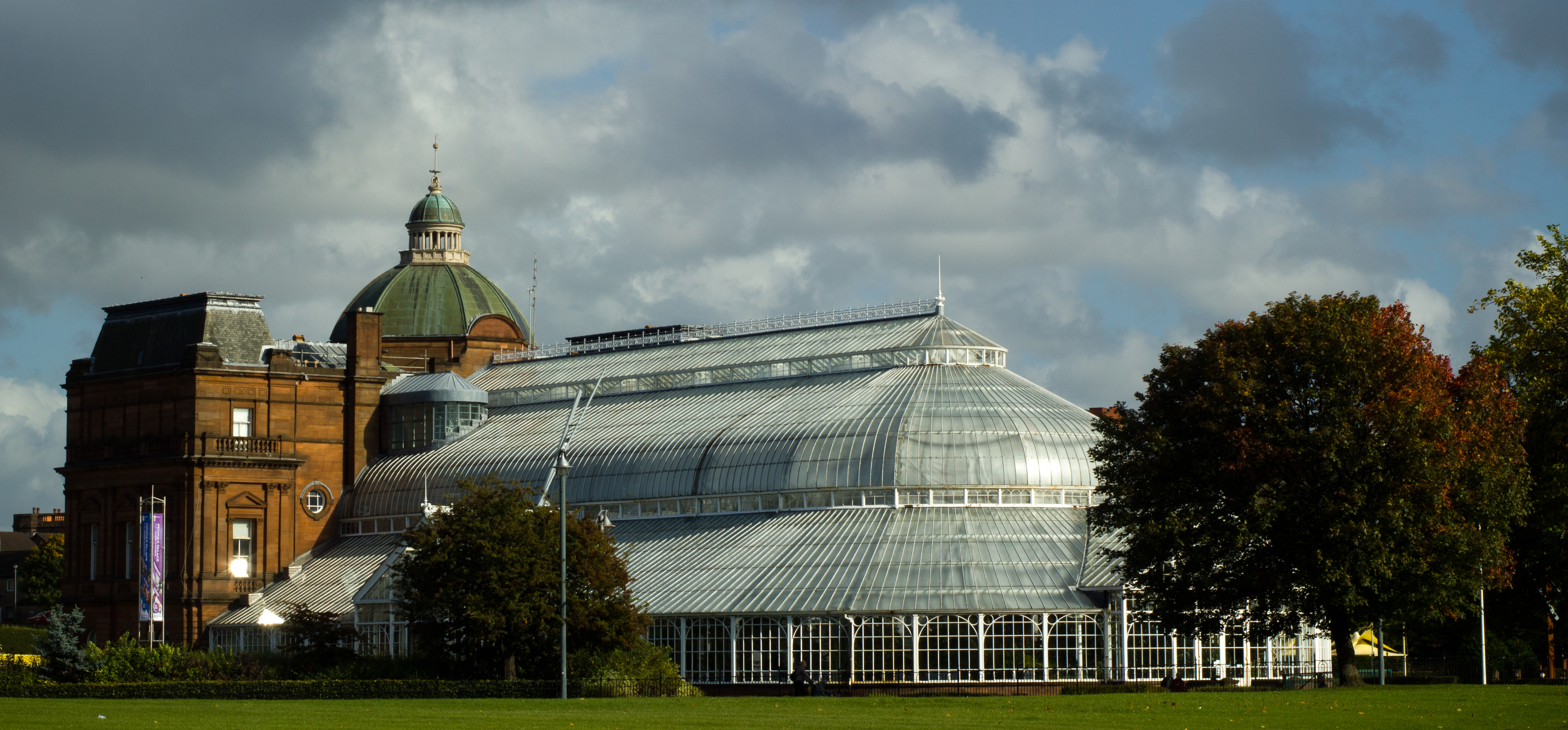 People's Palace Wikidata has entry Q7165644 with data related to this item.